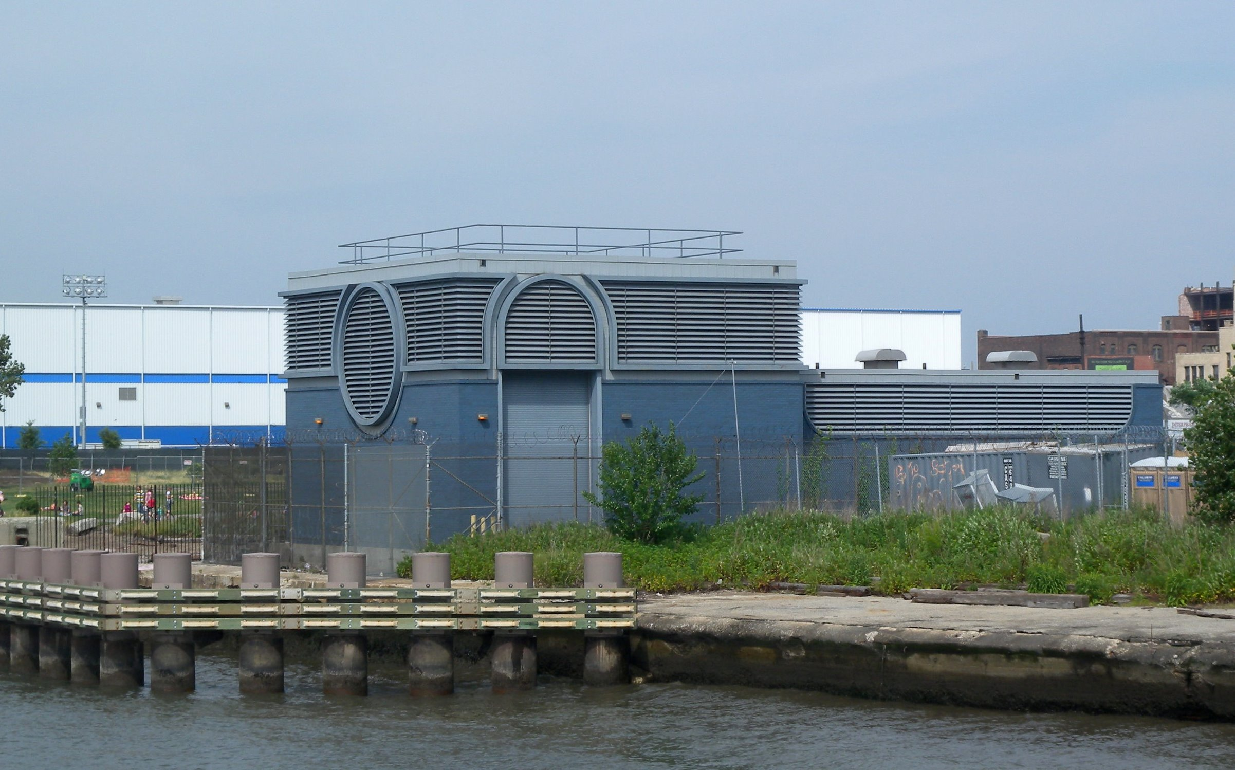 Looking east at L train's fan building from a ferry on a sunny midday.